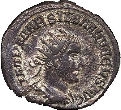 Obvers of Silbannacus' coin from British Museum